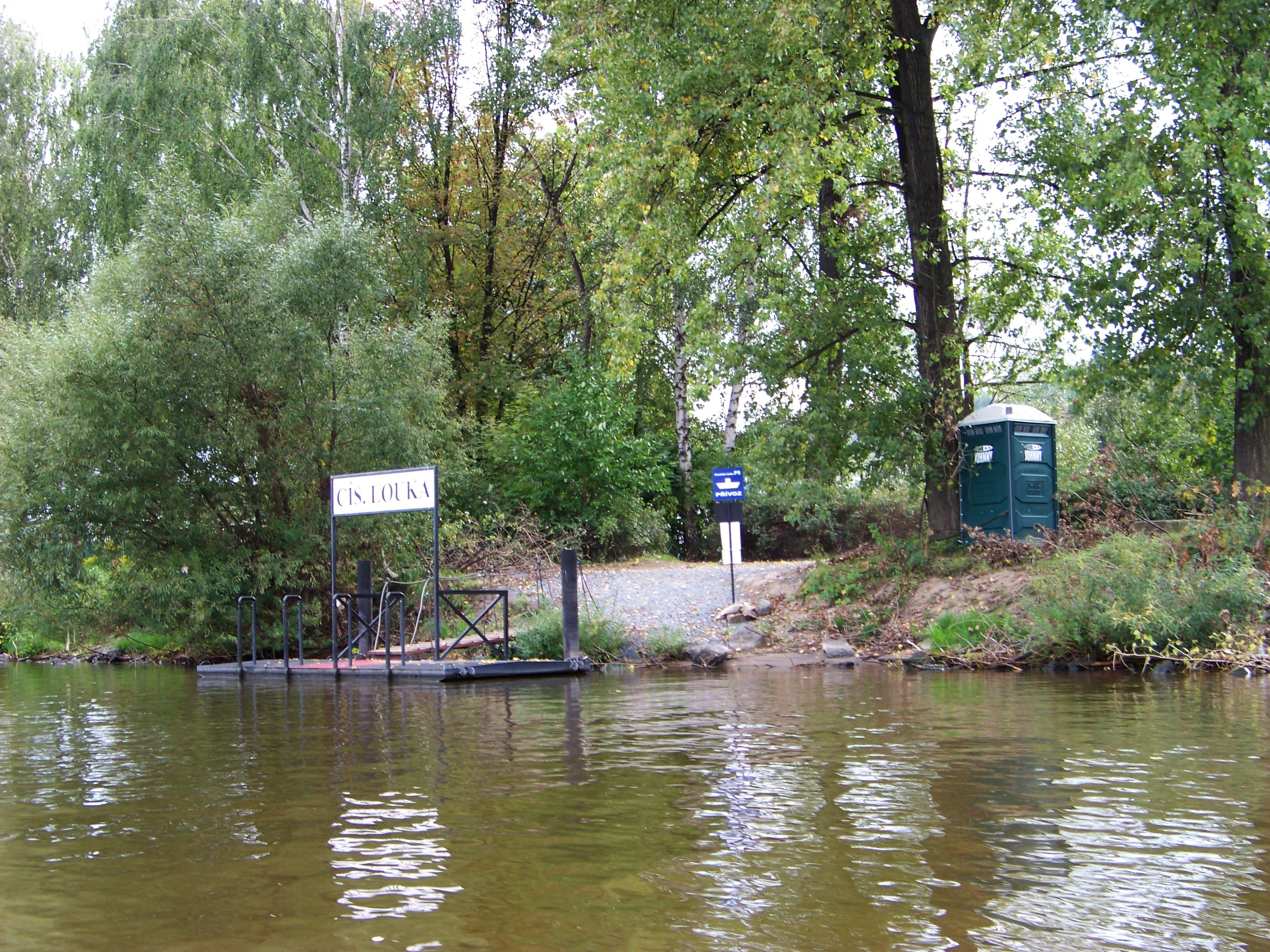 Prague-Smíchov, Czech Republic. P5 ferry, Císařská louka.